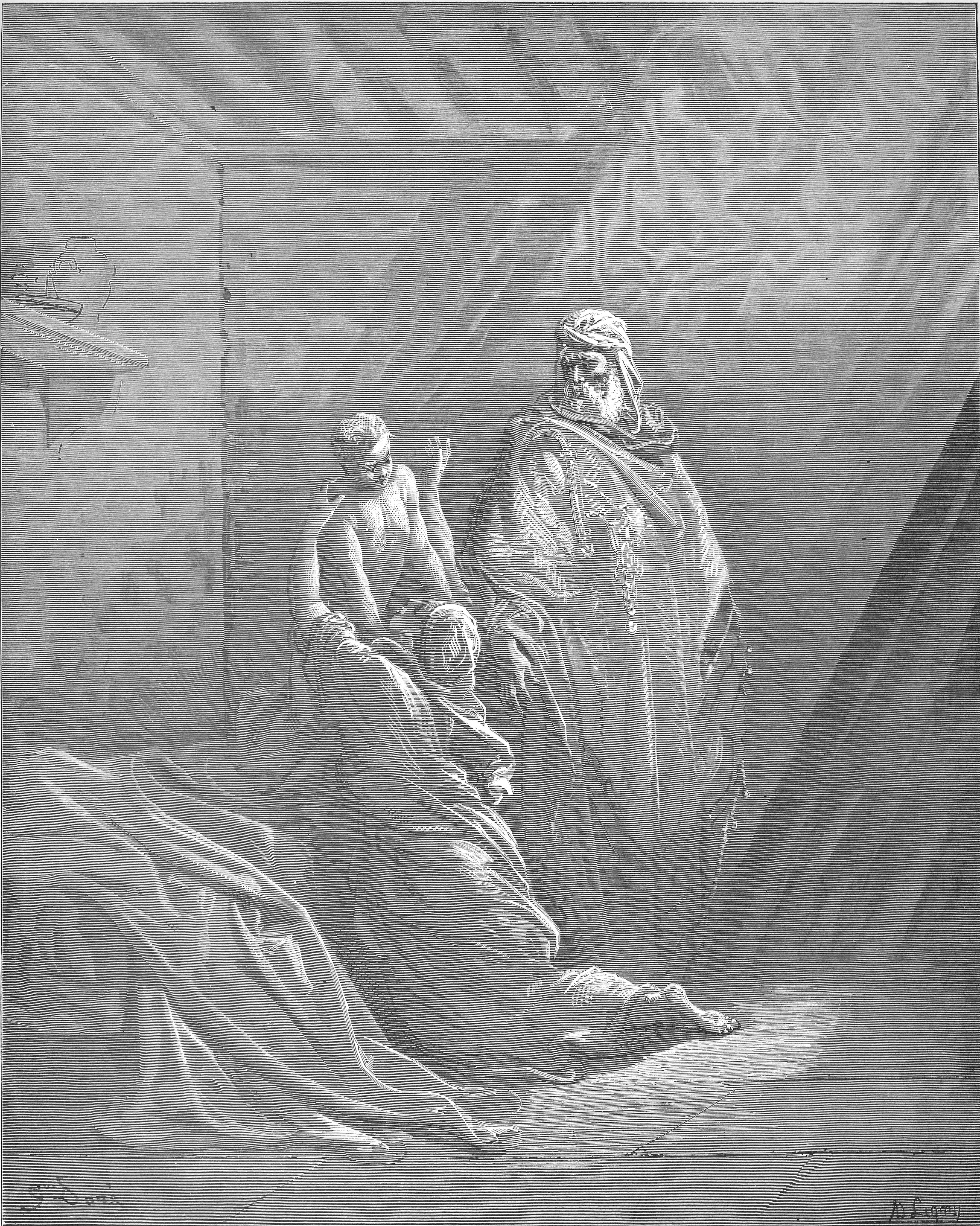 Elijah Raises the Son of the Widow of Zarephath (1Kings 17:1-24)